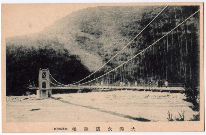 Great Cho Bridge of Fate中文（台灣）: 大濁水鐵線橋（蘇澳郡蕃地）